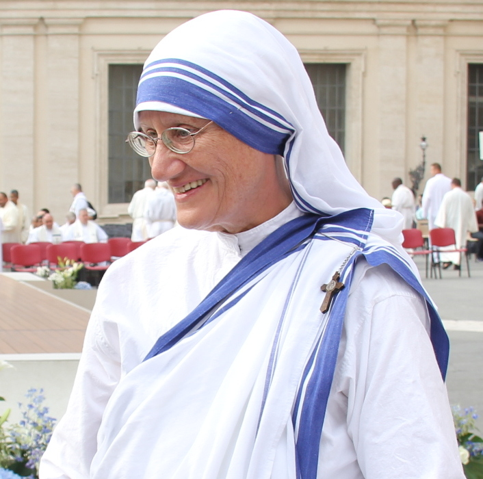 Vice President Chen and Mrs. Chen are greeted by Sr. Mary Prema Pierick, superior general of the Missionaries of Charity. (2016/09/05)